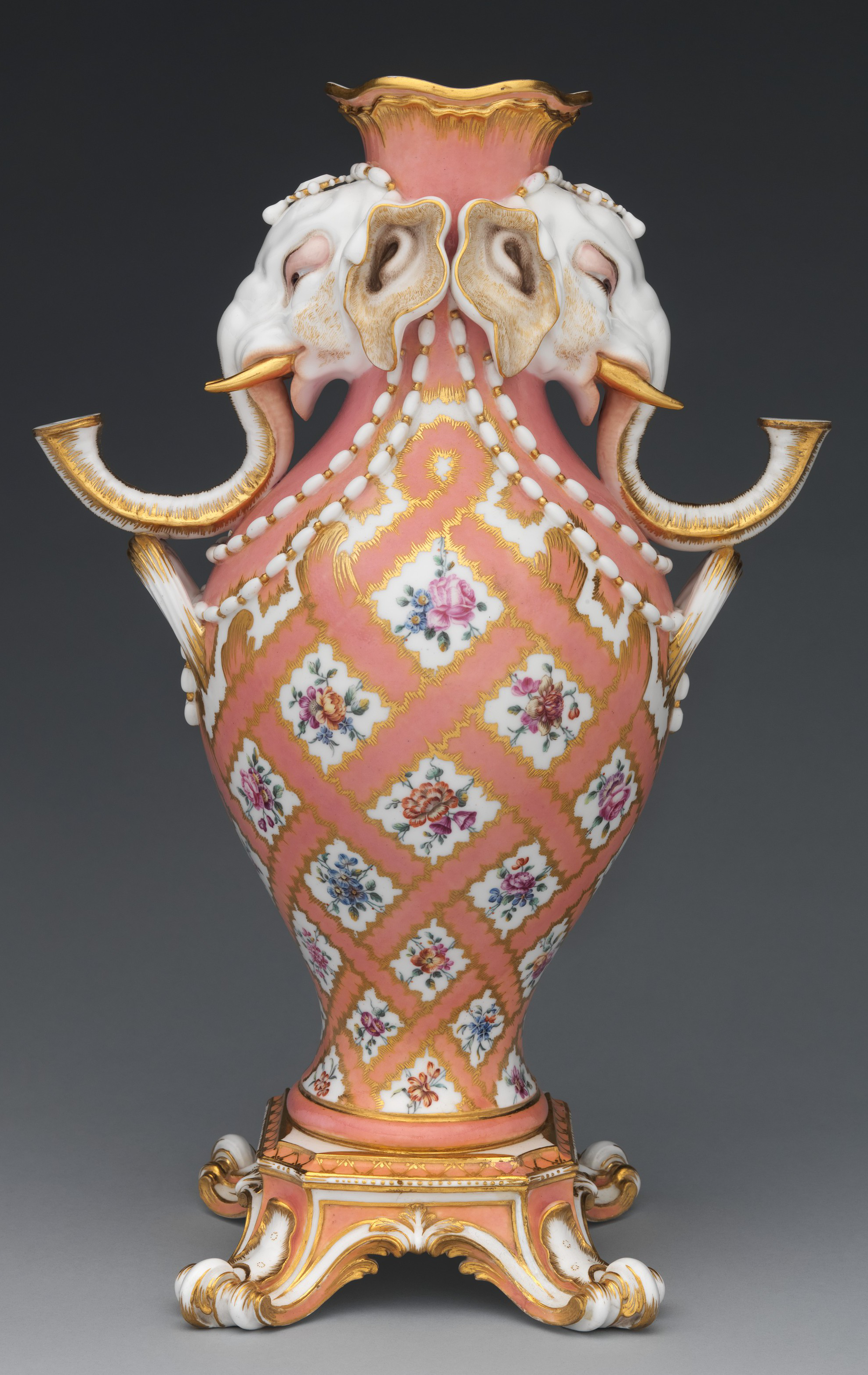 Vase (vase à tête d'éléphant) (one of a pair)